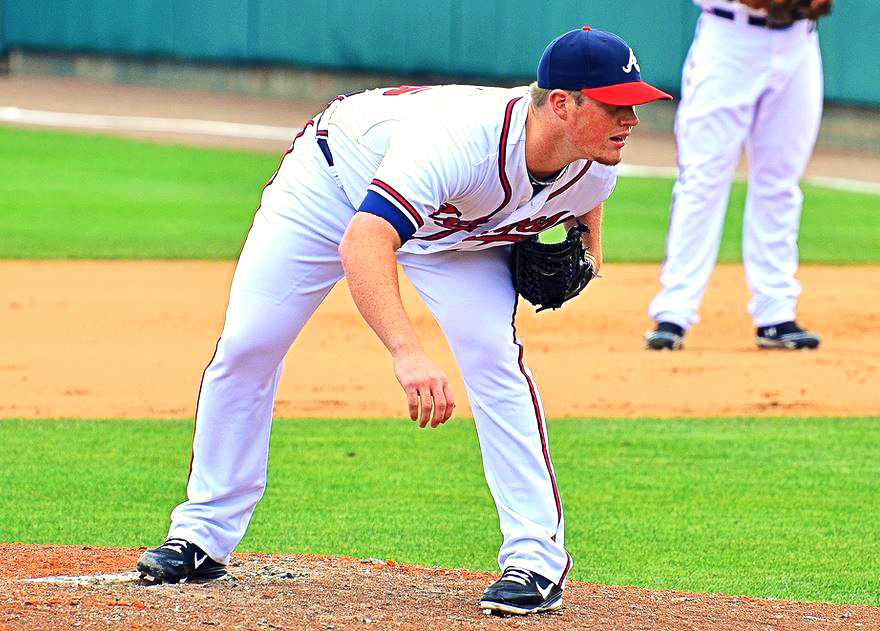 Craig Kimbrel pitches during 2013 Spring Training